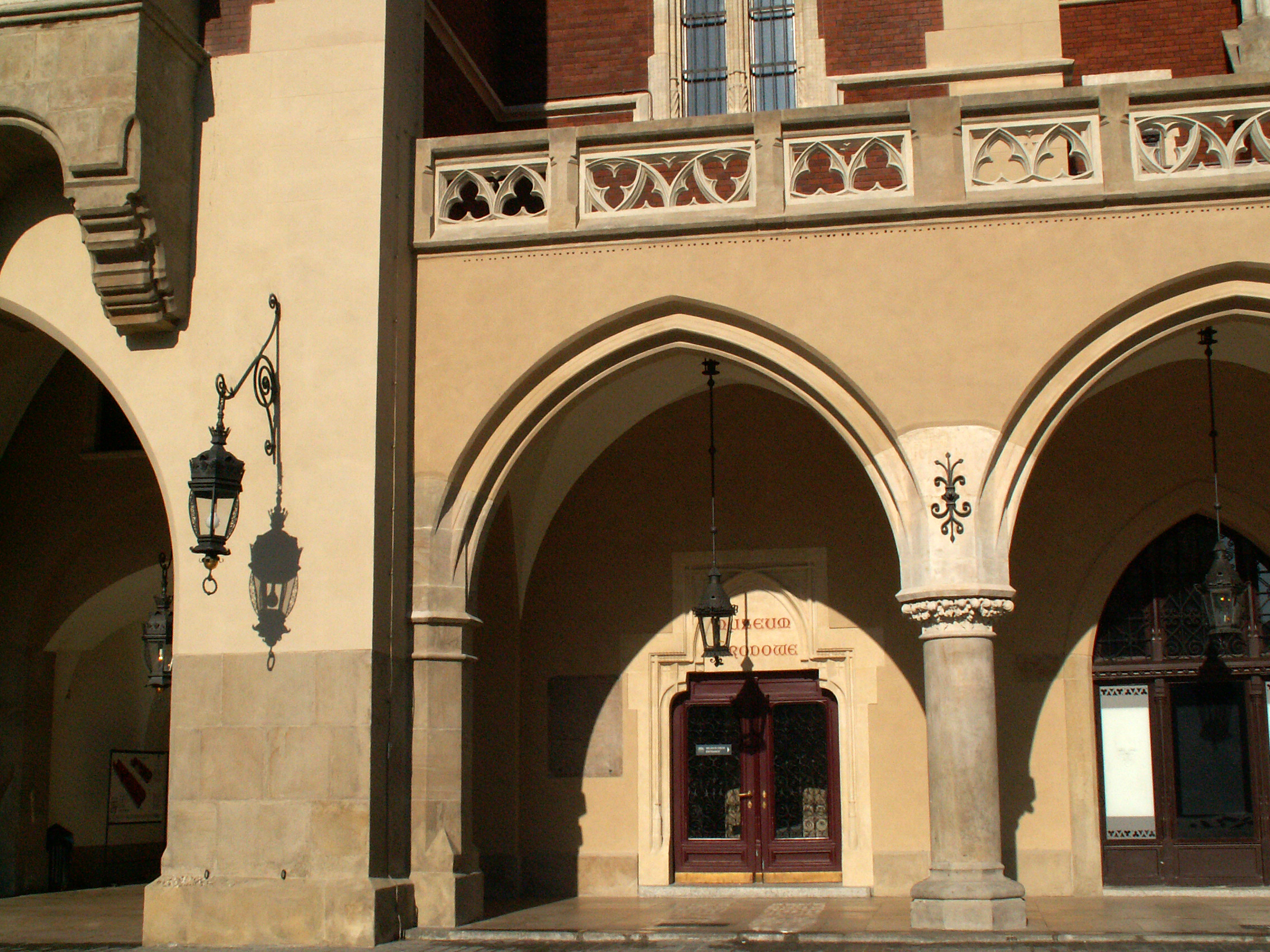 Sukiennice,National Museum entrance,Krakow,Poland